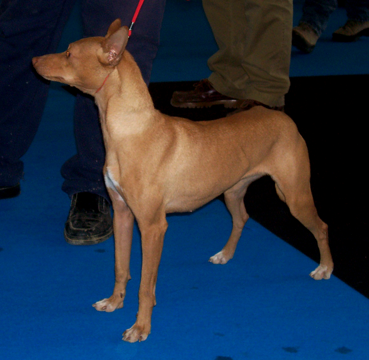 Podenco Andaluz